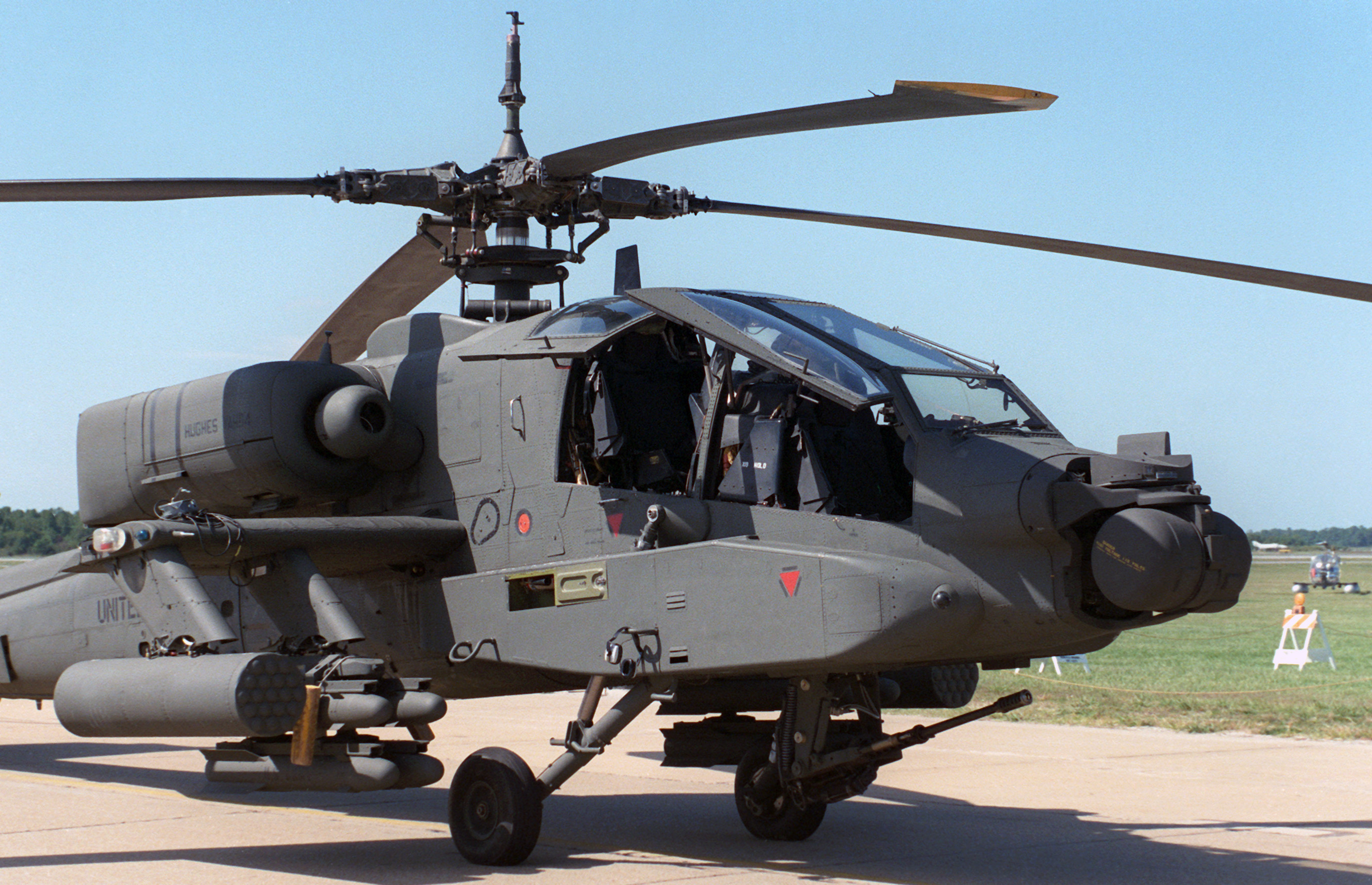 A right front view of a YAH-64 Apache helicopter parked on an apron.